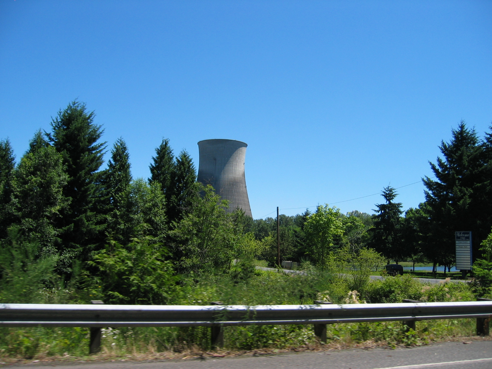 Cooling tower of the Trojan Nuclear Power Plant